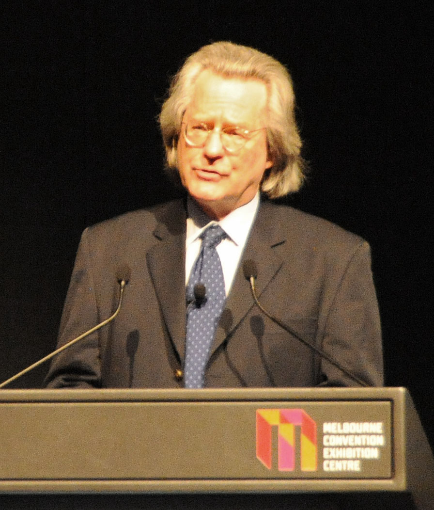 AC Grayling speaking at 2010 Global Atheist Convention